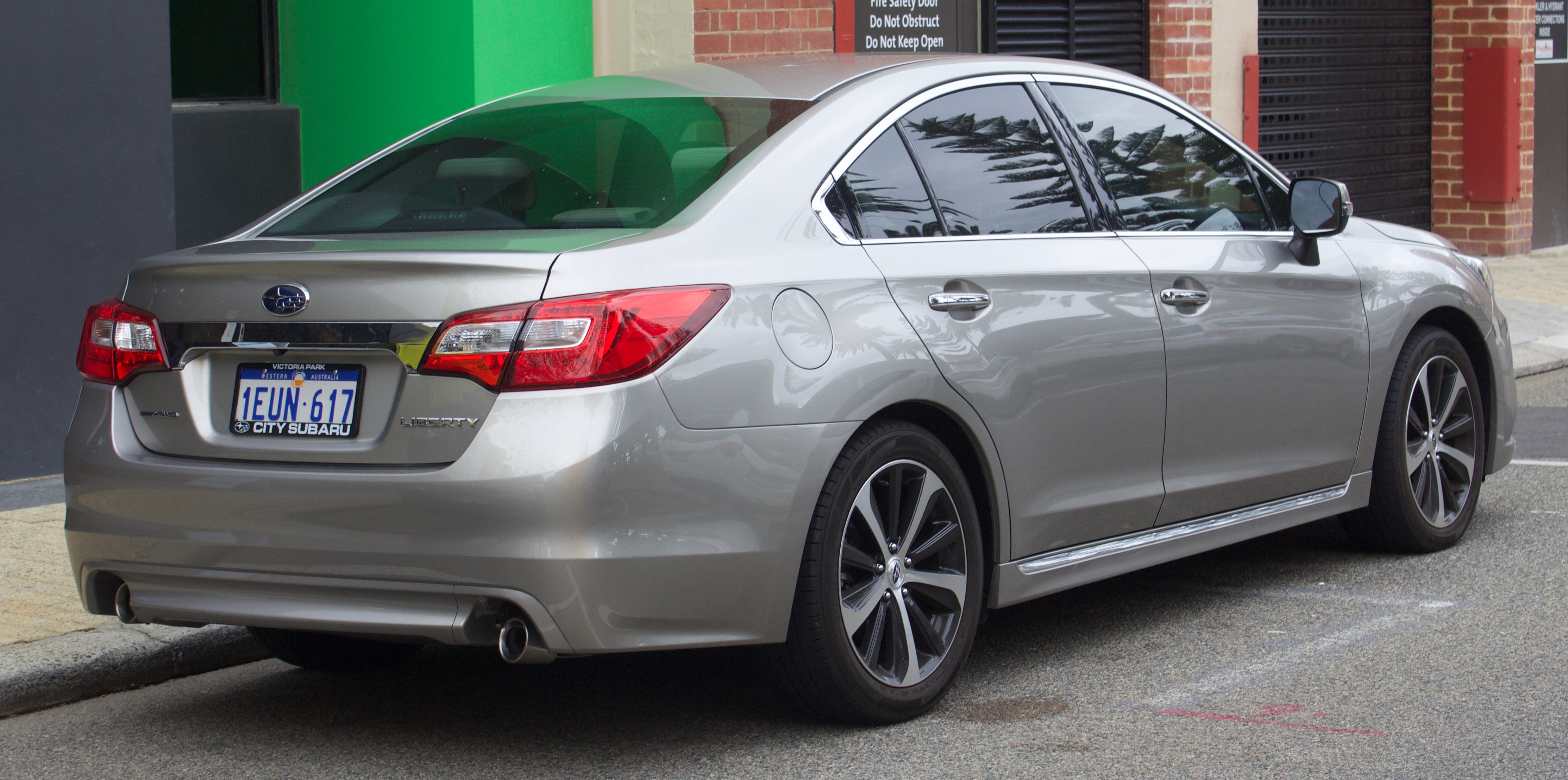 2015 Subaru Liberty (MY15) 3.6R sedan. Photographed in Fremantle, Western Australia, Australia. This is the 3.6R as identified by the chrome door sills.